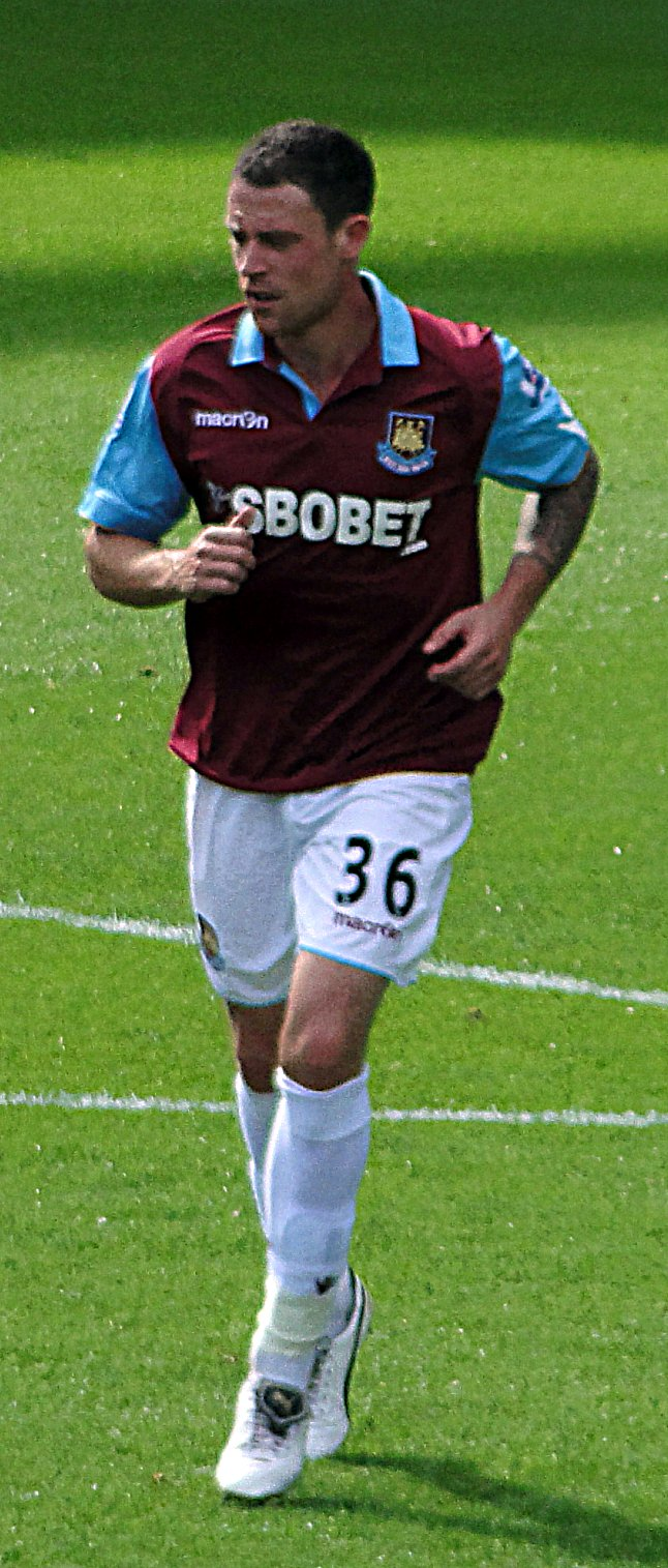 Wayne Bridge for West Ham United in their (and his) last game of the 2010-11 season.